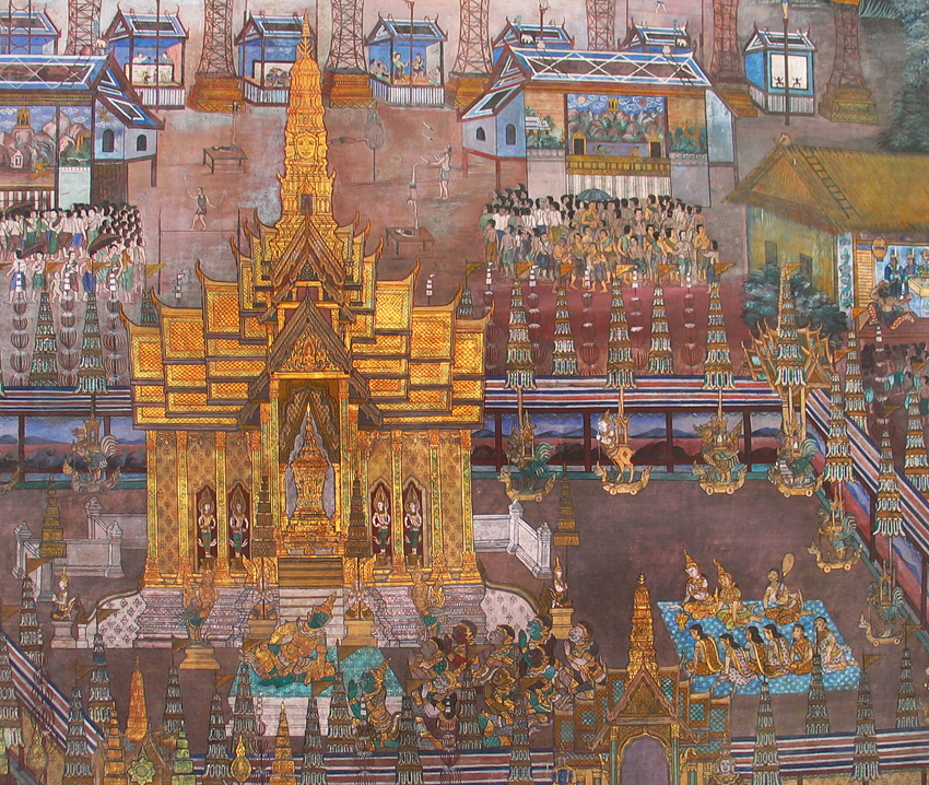 Ramakien painting showing the cremation of the demon king Thotsakan (RavanaX. Gallery in Wat Phra Kaeo, Bangkok, Thailand.